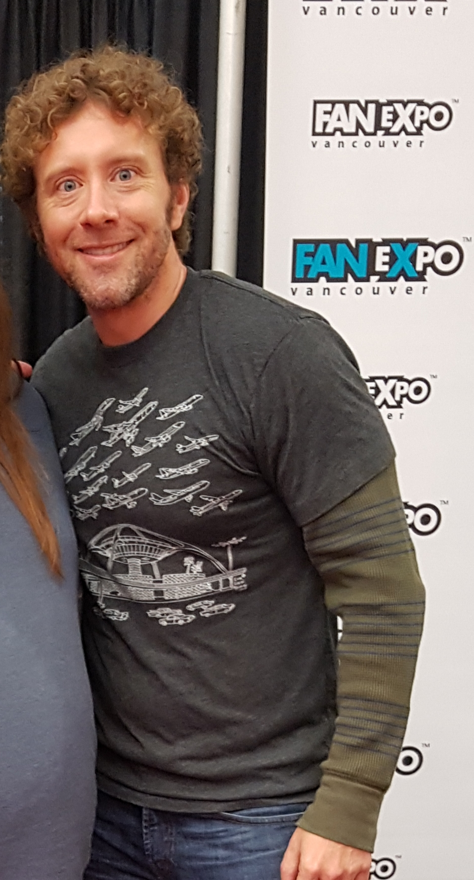 TJ Thyne posing with fan at Fan Expo Vancouver 2017